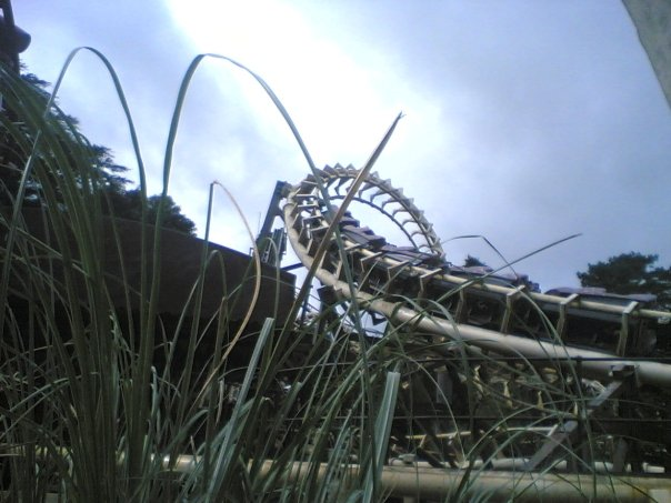 Mine all mine